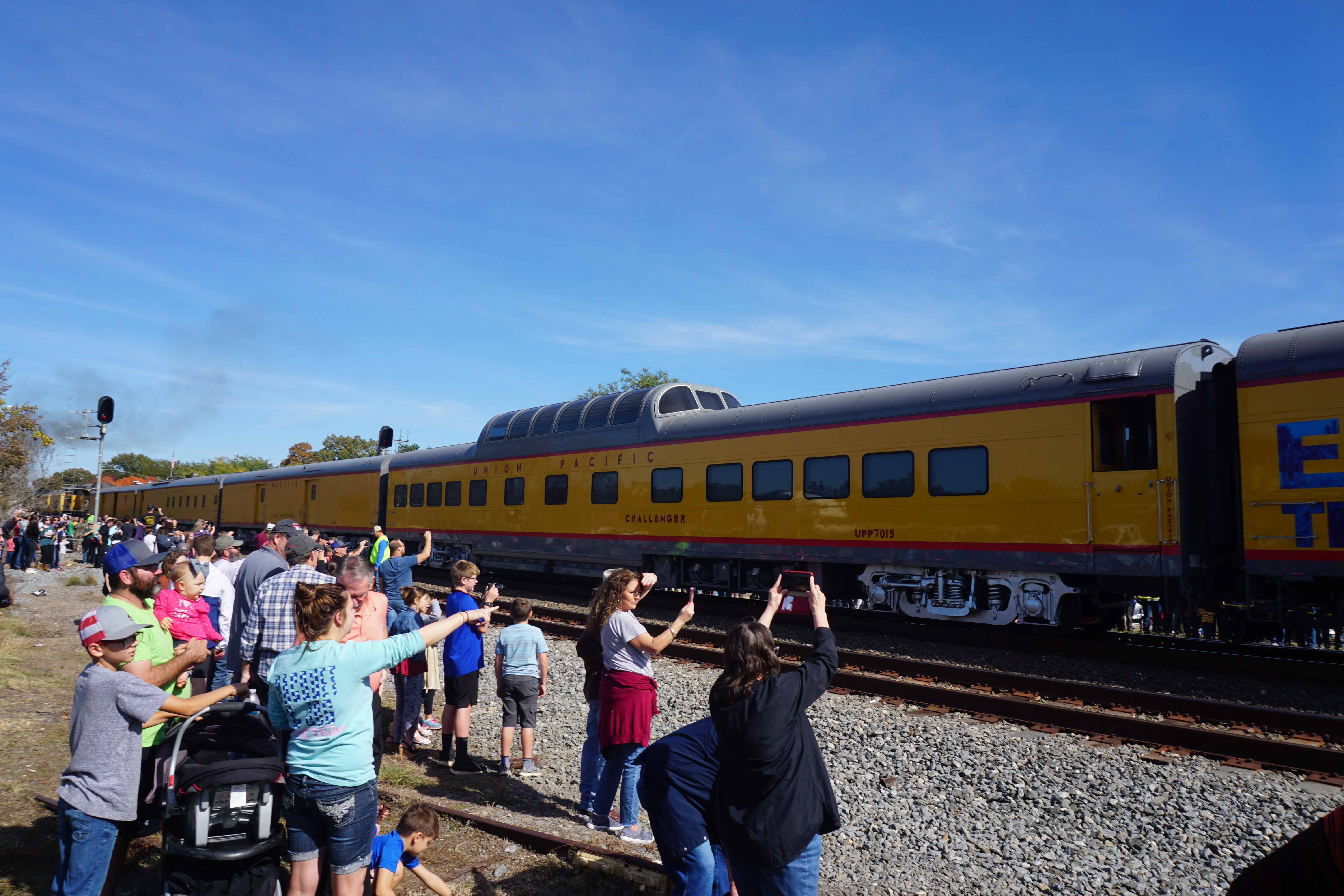 Union Pacific 4014 during the Great Race Across the Southwest in Overton, Texas (United States).